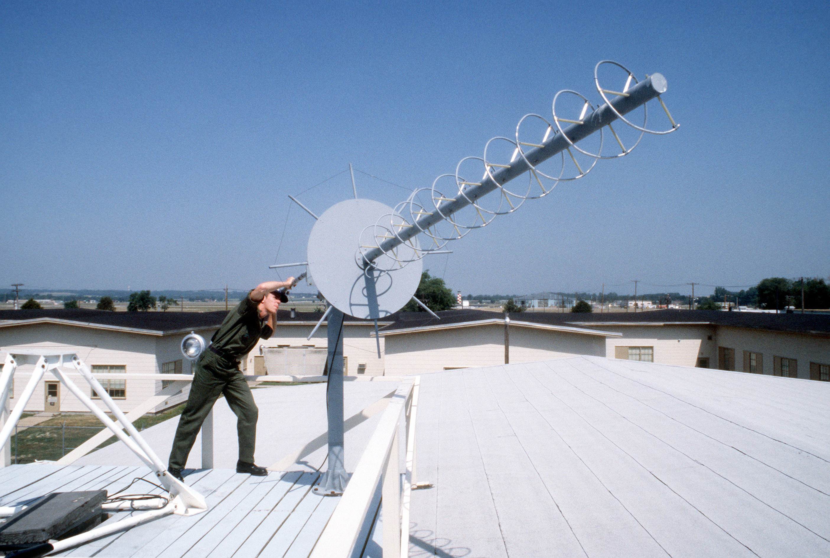 A member of the Air Force Communications Command directs a satellite communications antenna used with the Hammer Ace system. Hammer Ace is a secured long-range, air-transportable communications system used for rapid response purposes. From the June 1984 Airman Magazine. Location: SCOTT AIR FORCE BASE, ILLINOIS (IL) UNITED STATES OF AMERICA (USA)